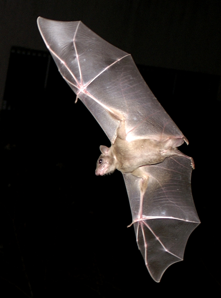 Common fruit bat (Rousettus aegyptiacus) flying in Israel